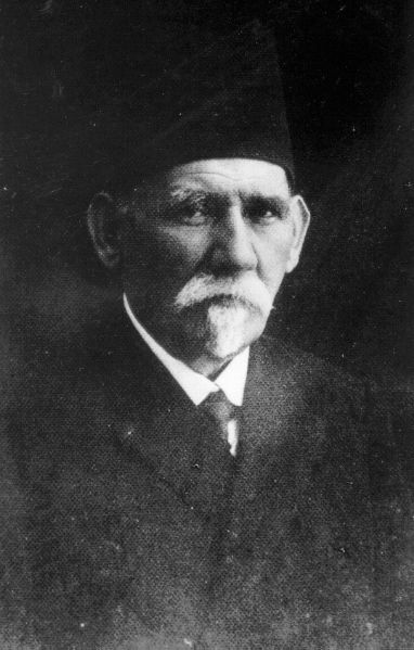 ד"ר מנחם (מרק) שטיין, רופא מאנשי העלייה הראשונה